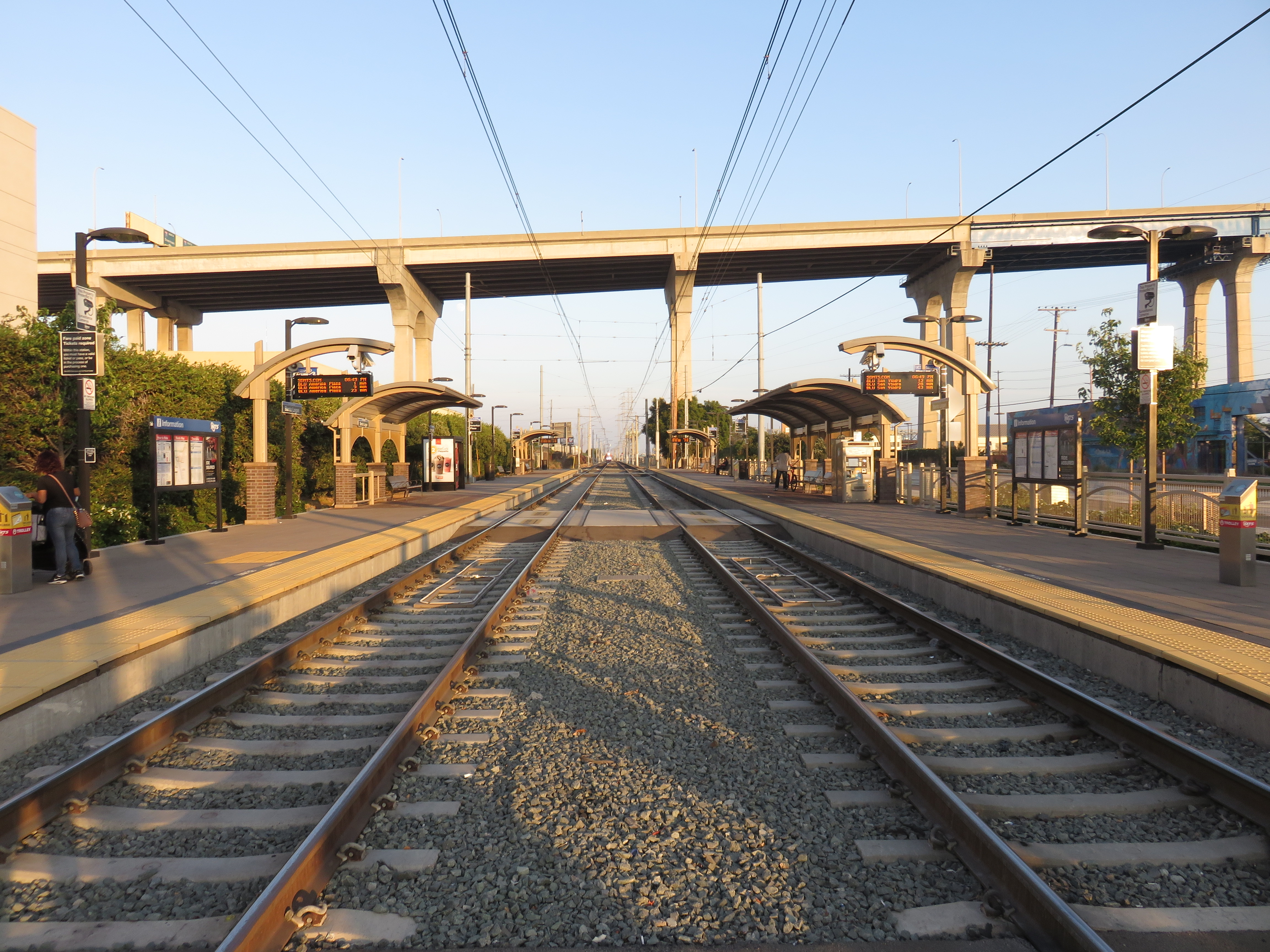 Barrio Logan San Diego Trolley station, with a portion of the San Diego–Corona Bridge in the background, in 2018